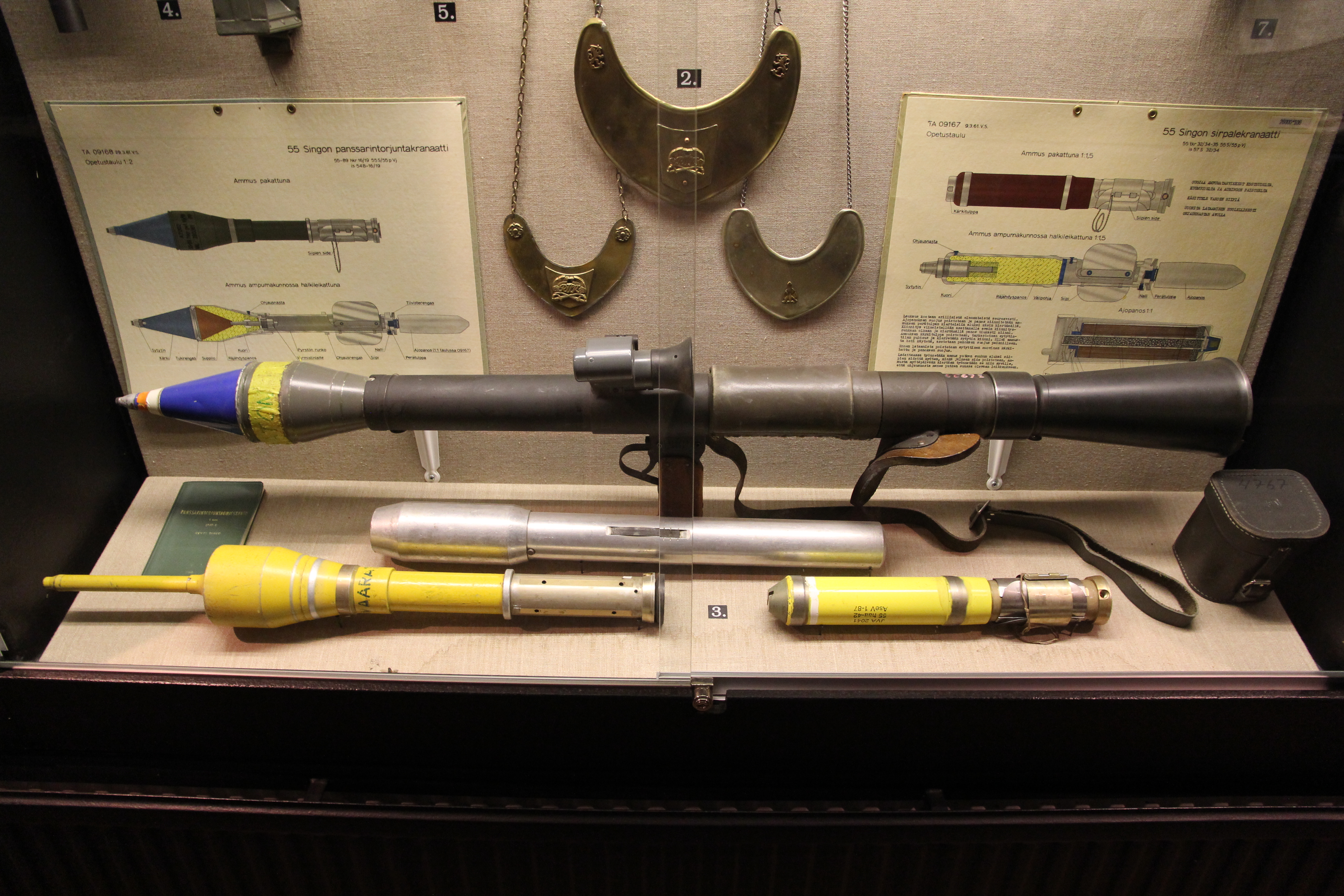 Finnish 55 S 55 light recoilless rifle with training ammunition (armour piercing shot left, high explosive fragmentation right, blank in the middle). Photographed in RUK-museum in Hamina.